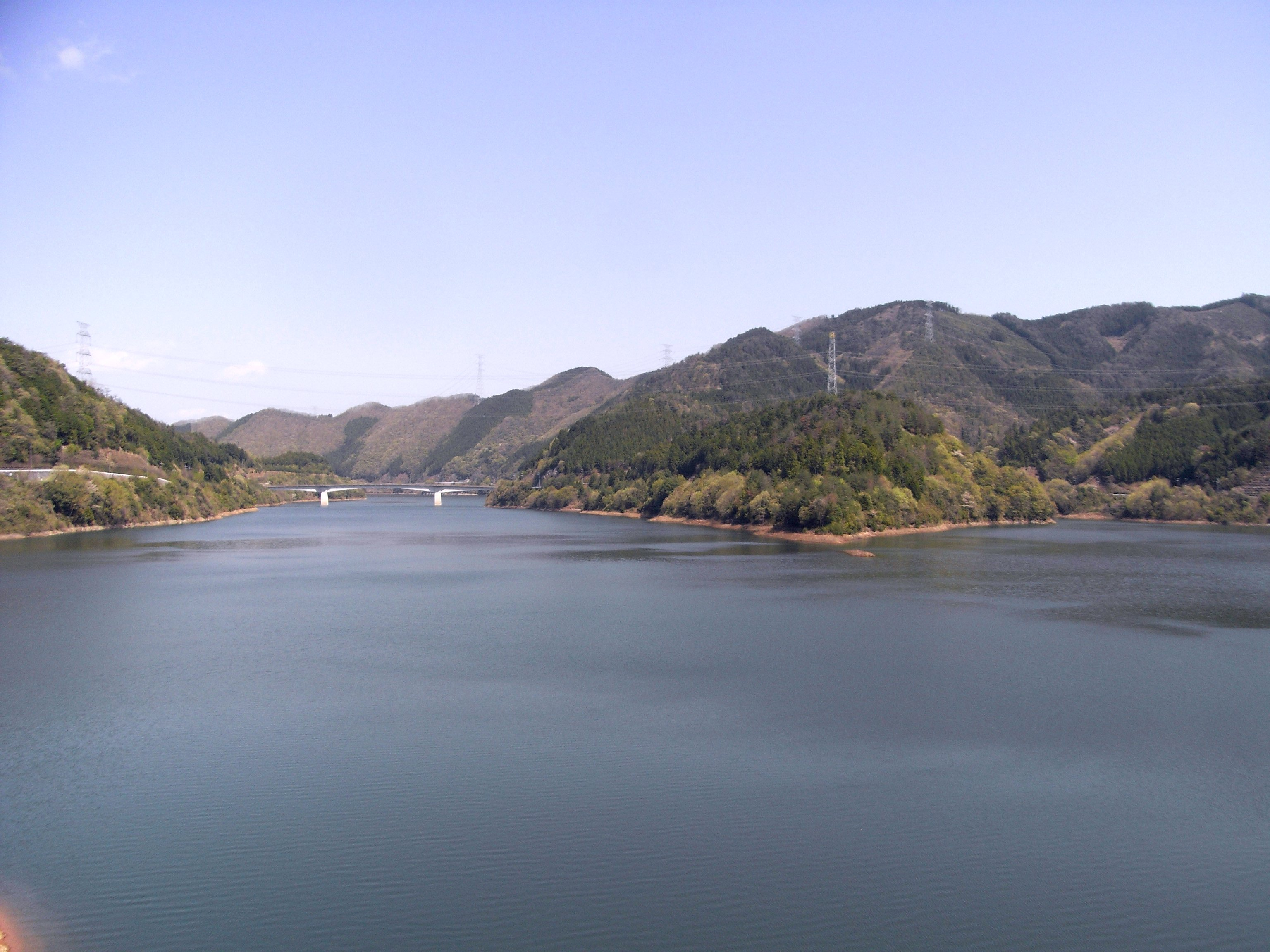 Lake Amawakako(Katsuragawa river/Kyoto/Japan)